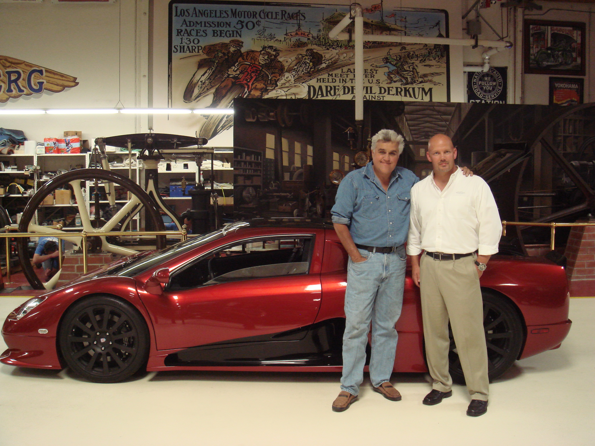 Jay Leno and Jerod Shelby on the set of "Jay Leno's Garage" in front of the SSC Ultimate Aero that was featured on an episode.